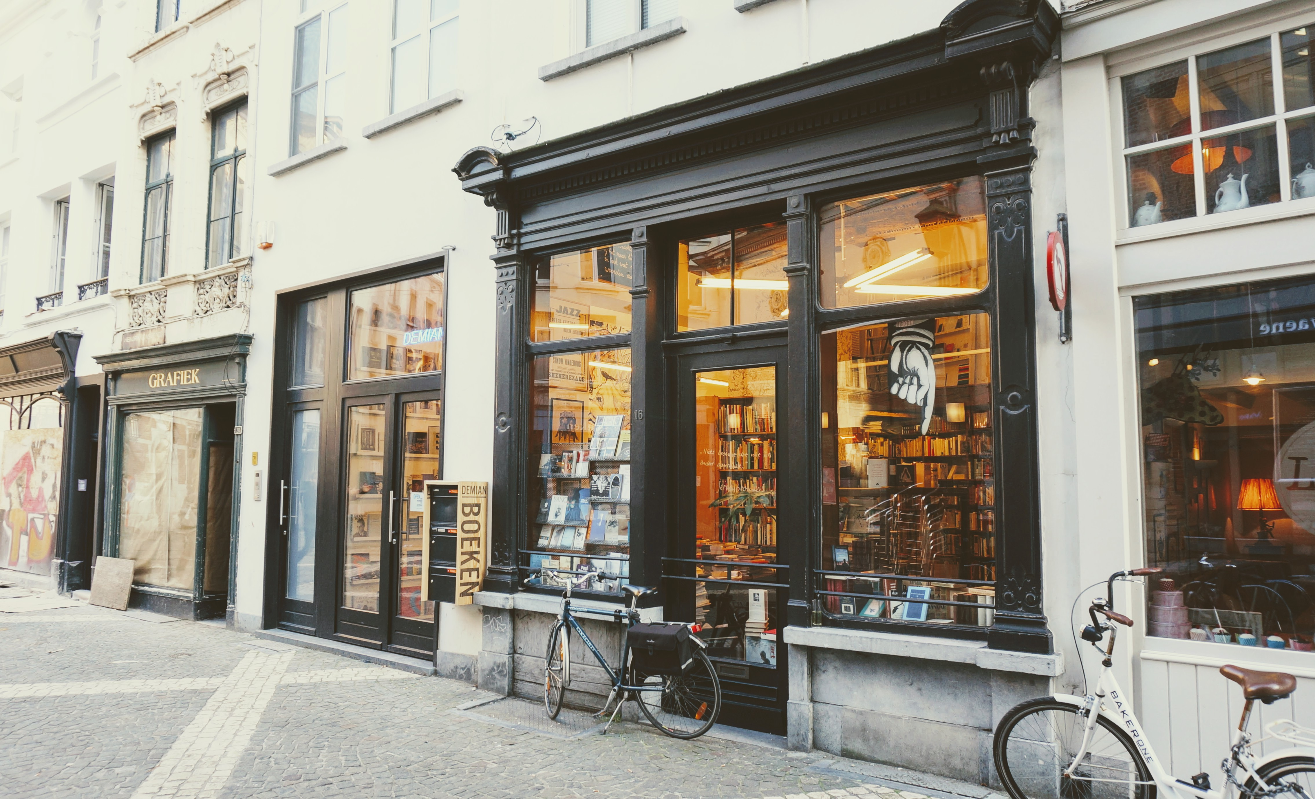 Facade of second hand book shop Demian, Antwerp, Belgium.